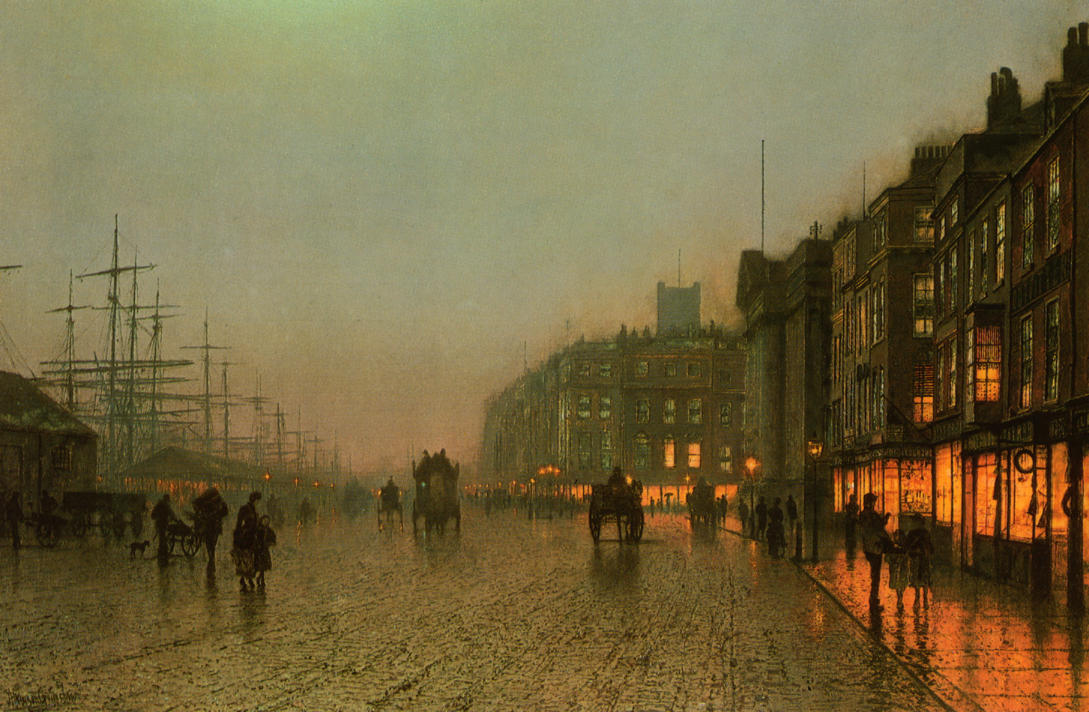 Liverpool from Wapping 1875 John A Grimshaw, Philadelphia Museum of Art